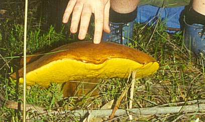 Phlebopus marginatus – East Gippsland (Errinundra NP)